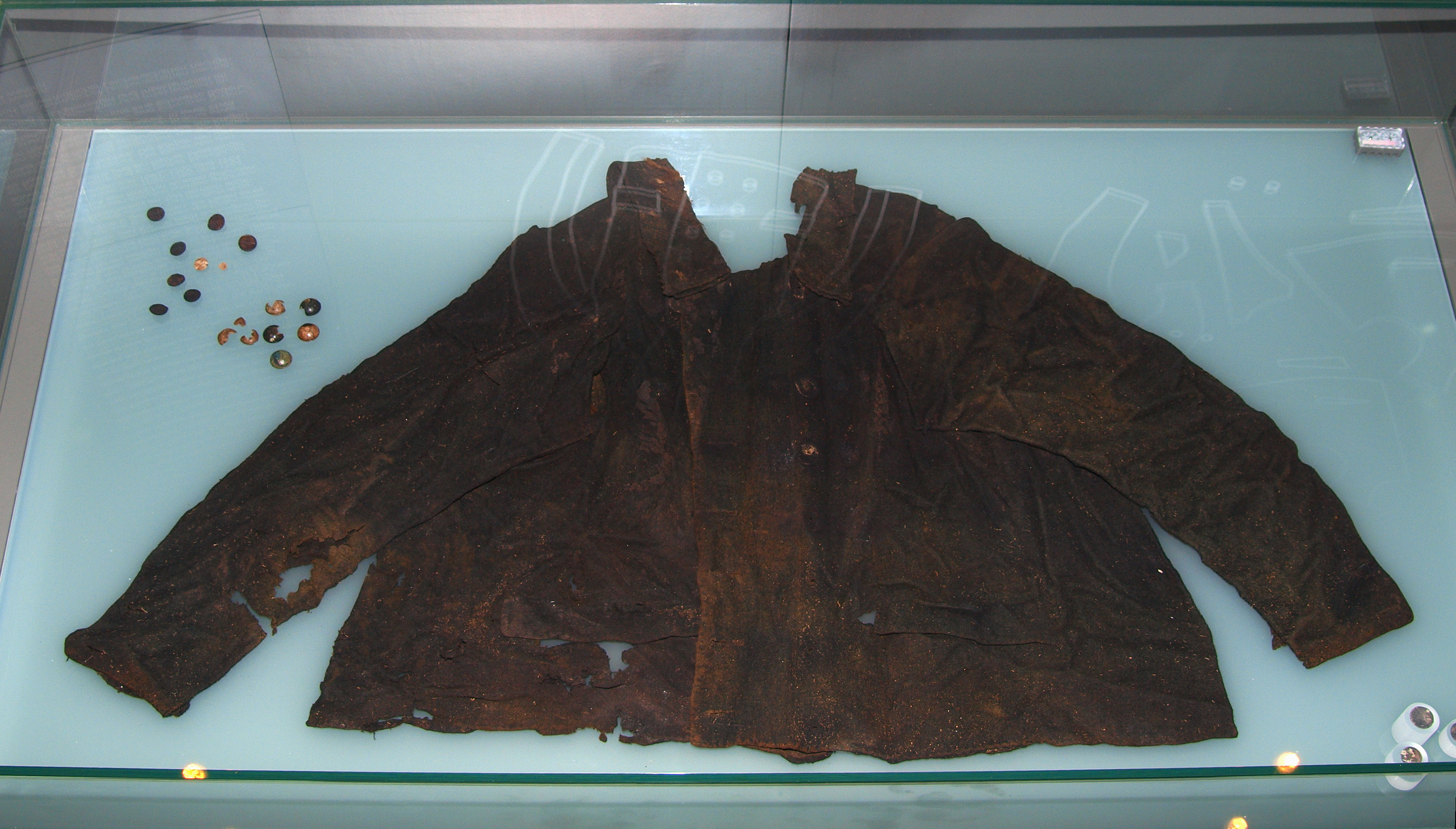 Remains of the originally green, woolen jacket, along with its buttons and the coins of hawker or, itinerant merchant, Jan Spieker (Johann Spieker; * 1782 in Rahden, Germany; † at Goldenstedter Moor), who suddenly died in August or September 1828 while on his way through the Goldensteder Moor bog, and who later was re-interred on site. In 1978, his burial place was archaeologically excavated. The jacket is in the Loan Collection of the State Museum Landesmuseums Natur- und Mensch Oldenburg in the permanent exhibition, "Moortunnel" of the Naturschutz- und Informationszentrums (NIZ) Goldenstedter Moor e.V. in Goldenstedt, Lower Saxony, Germany.